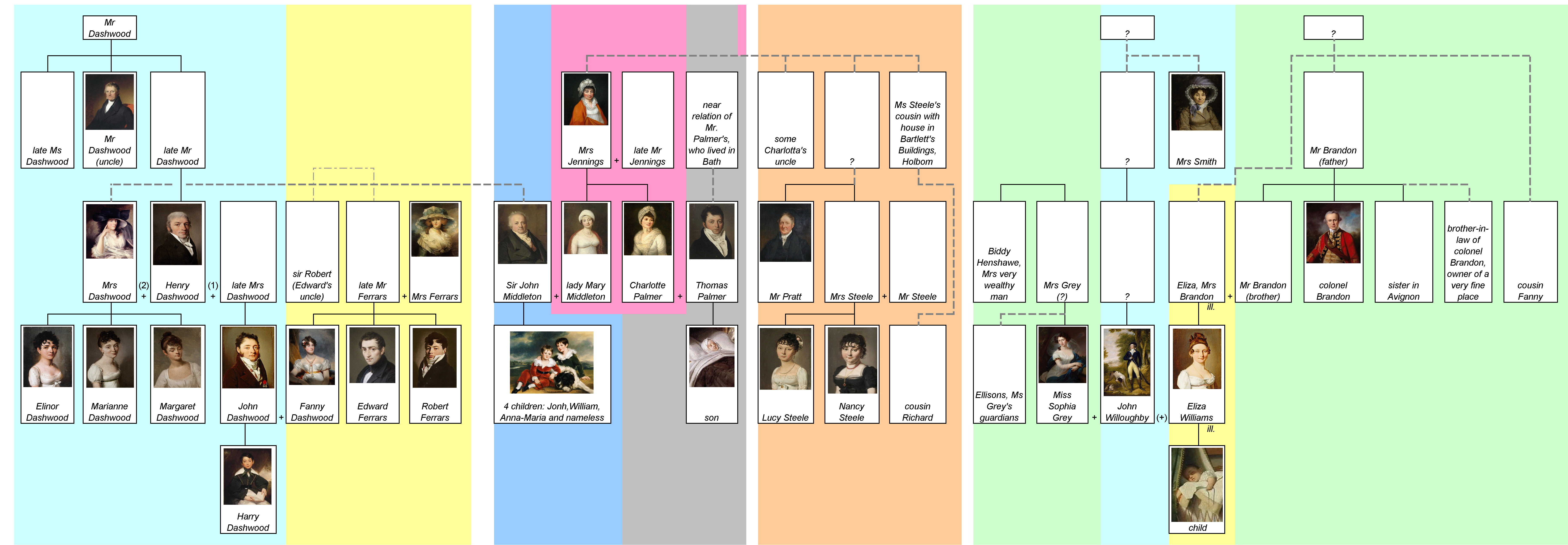 Sense_and_Sensibility_family_tree Using PD-Art (early 19th-century) portraits of unknown people